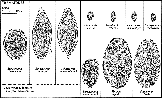 Eggs of digenean parasites of human.